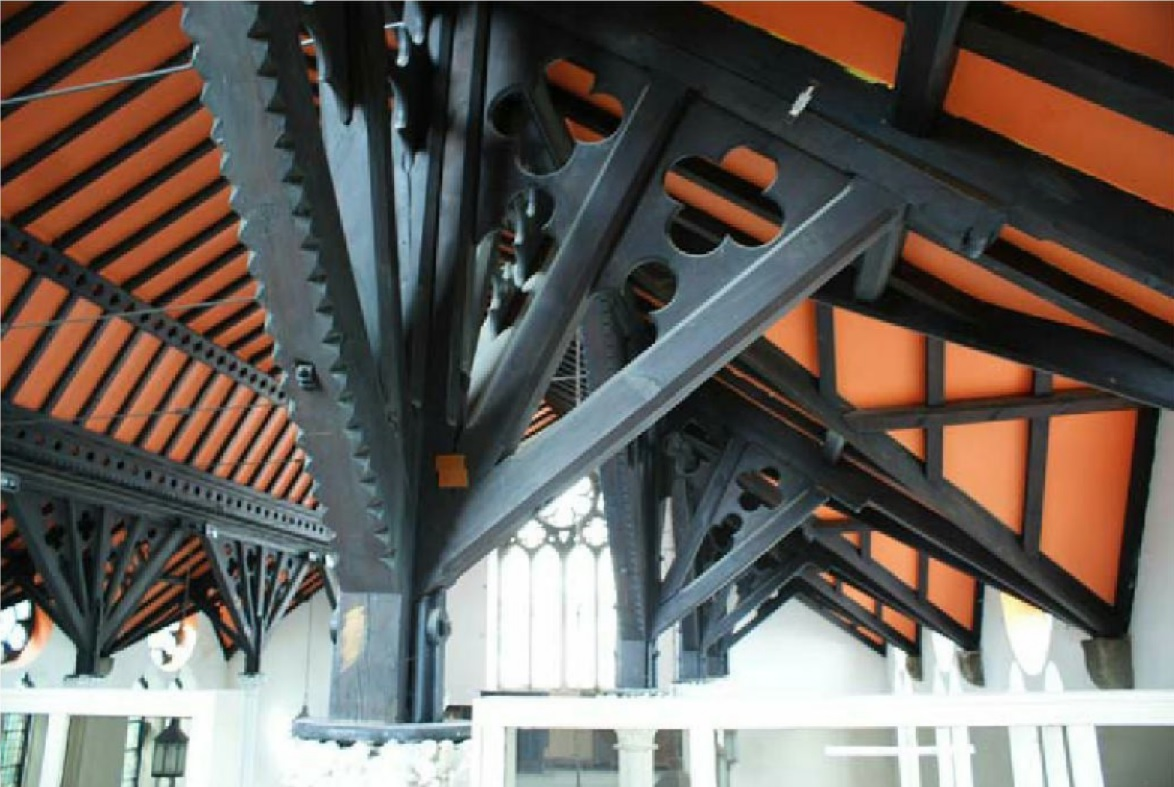 Image showing the ceiling and timber elements at Headingley Hill Congregational Church.